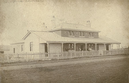 Brewarrina Court House Dated: No date Digital ID: 4346_a020_a020000335 Rights: We'd love to hear from you if you use our photos. Many other photos in our collection are available to view and browse on our website using Photo Investigator.